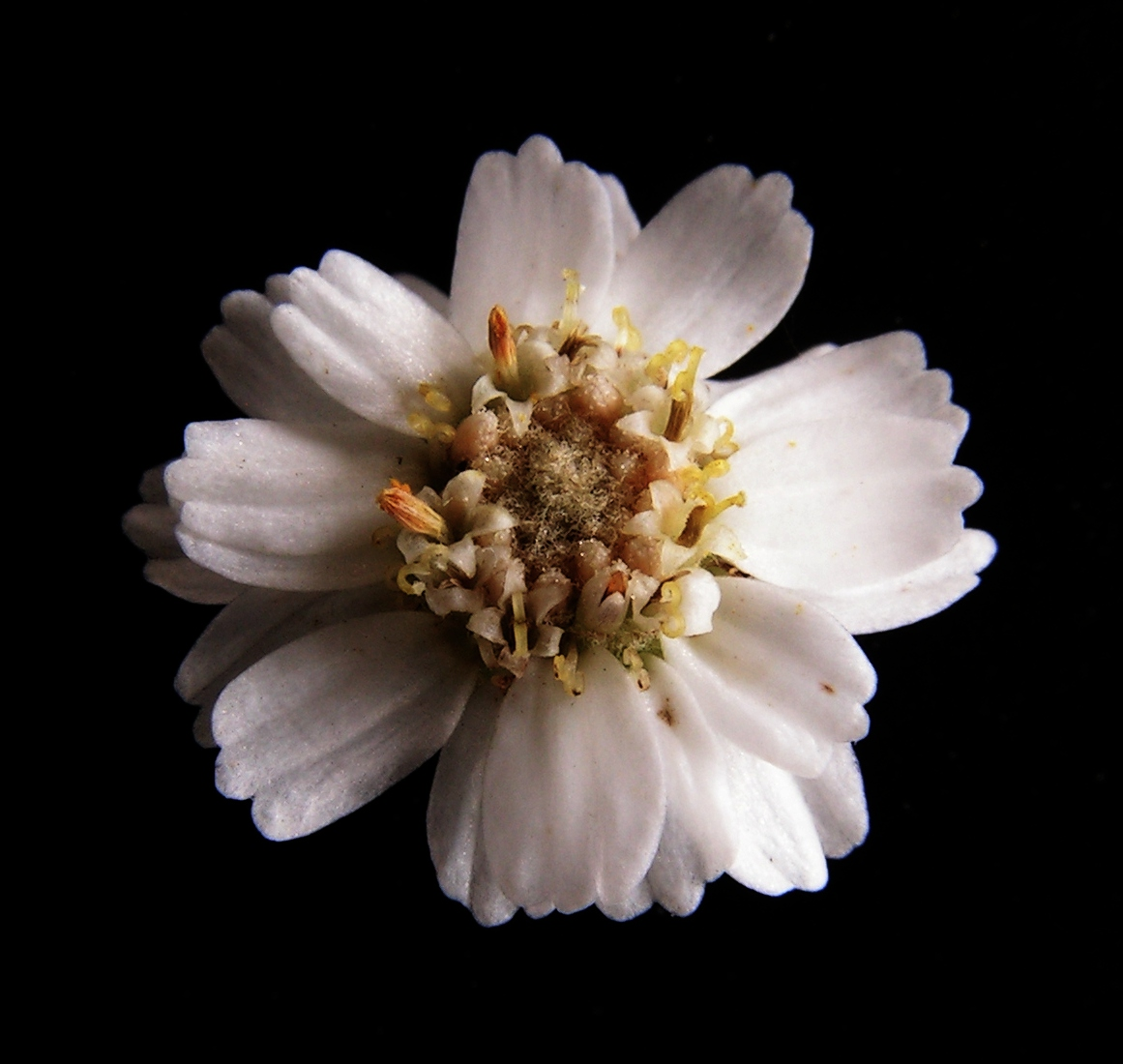 Inflorescence of Sneezewort (diameter of the inflorescence is appr. 2 cm). Moscow region, Russia.